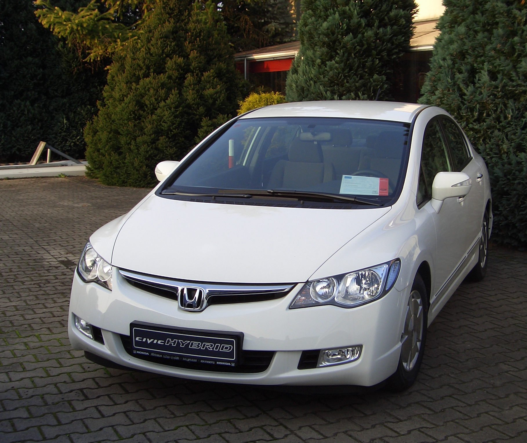 IMA-equipped Honda Civic Hybrid.